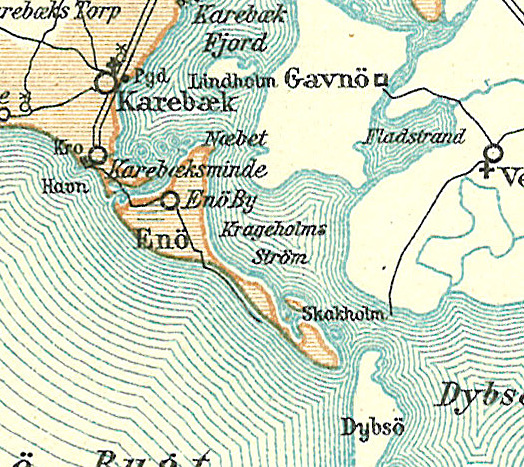 Map of Enø (Karrebæk Sogn) in Denmark